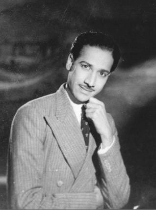 Enmagan -A 1945 Tamil Movie Still